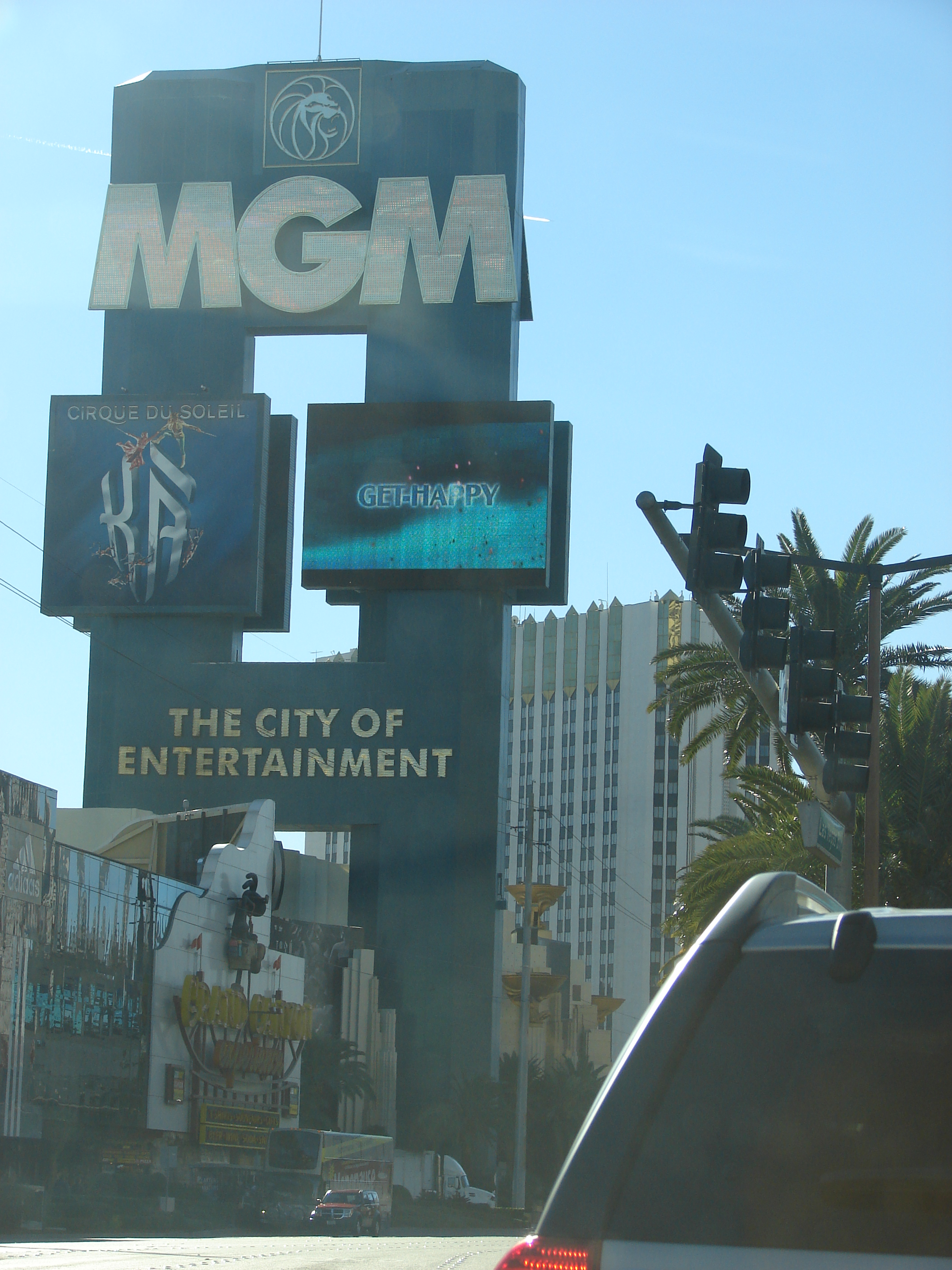 Location: Nevada, MGM Grand Las Vegas